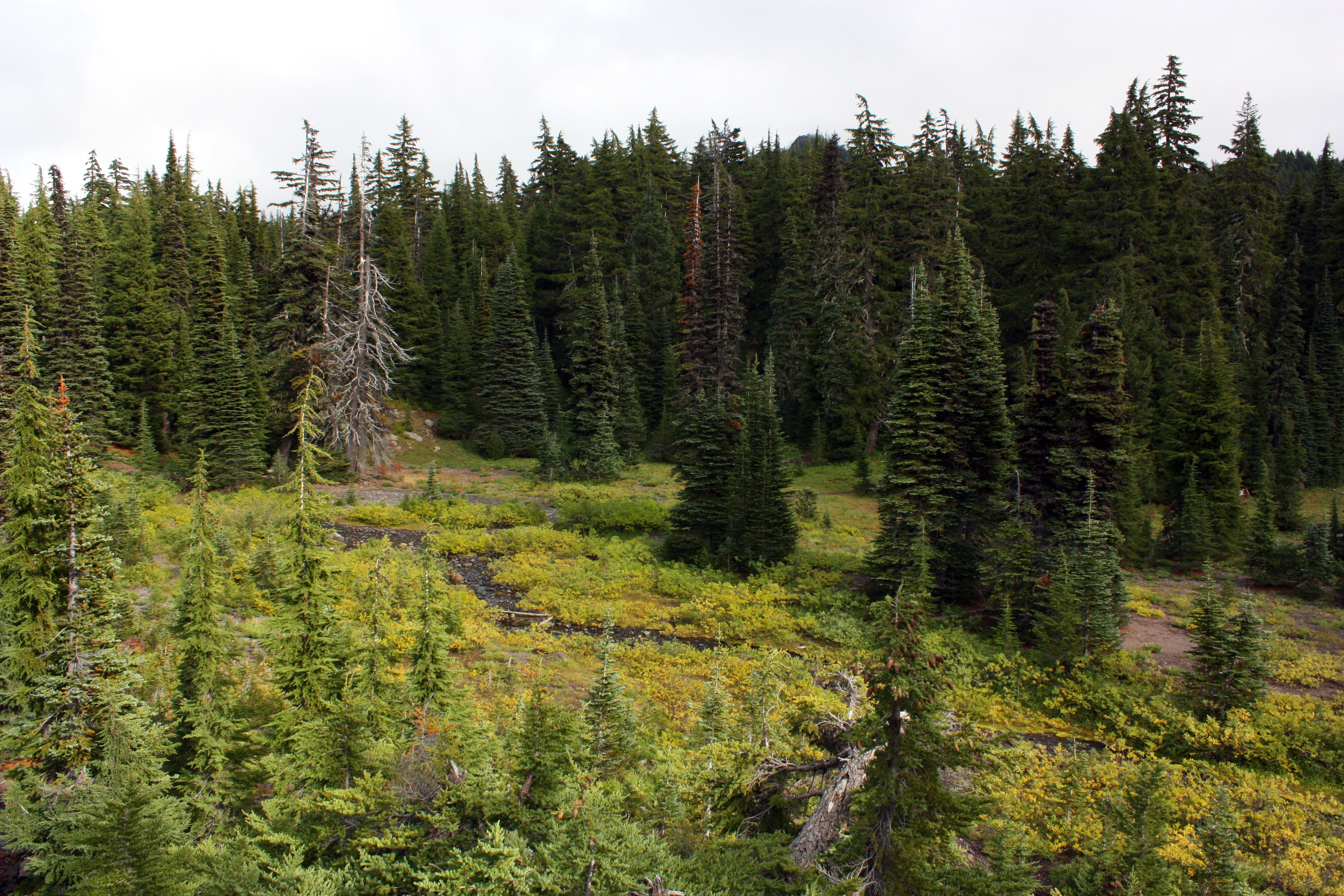 Mountain Hemlock; Abies lasiocarpa; White Branch Creek